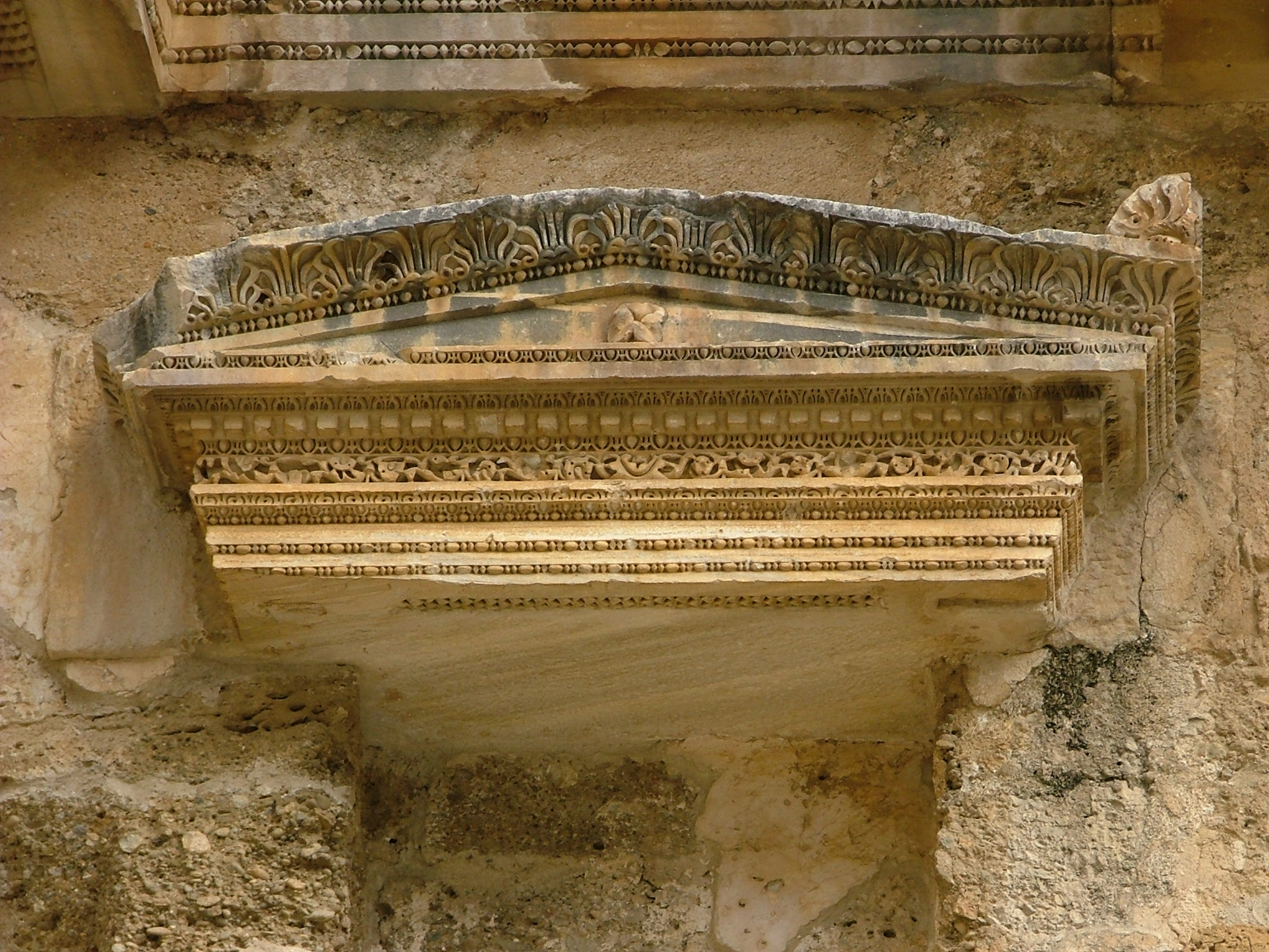 Detail of carved stones remaining on front wall near stage.